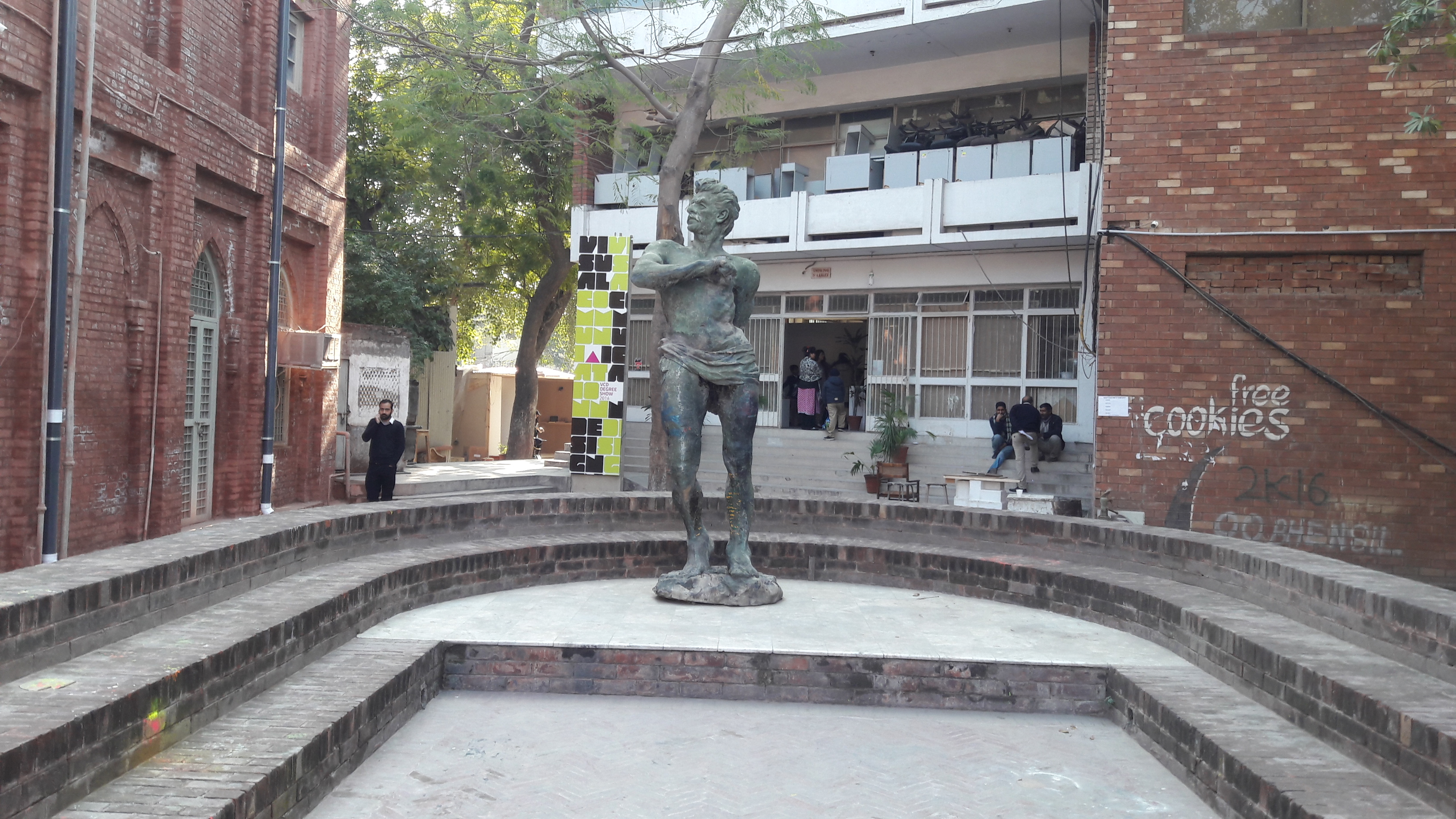 National College of Arts, Lahore